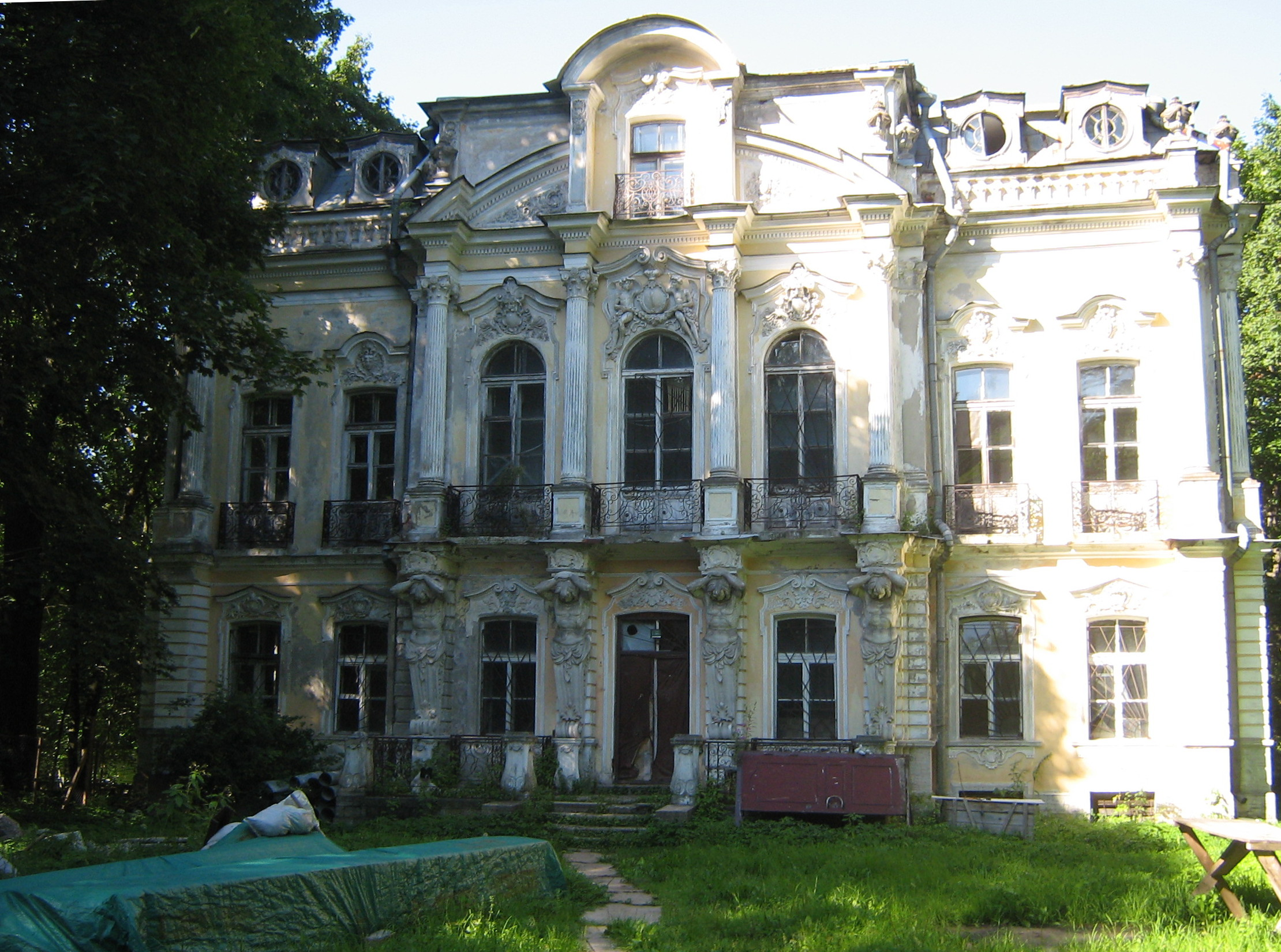 Saint Petersburg (Russia), Petergof.